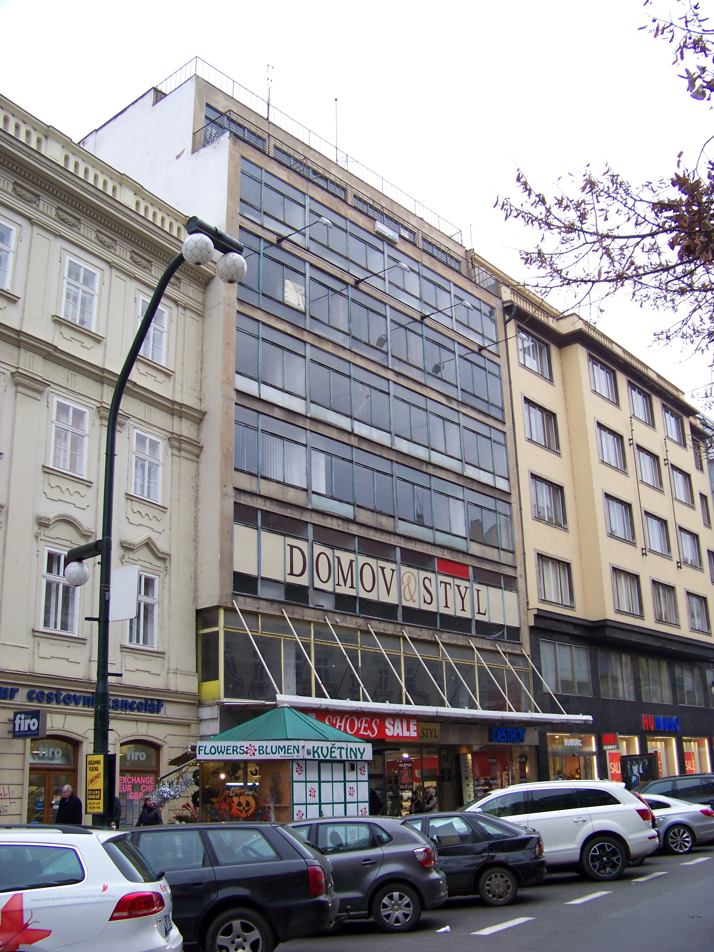 Prague-New Town, Czech Republic. Národní 38/36. - OpenStreetMap (Info)